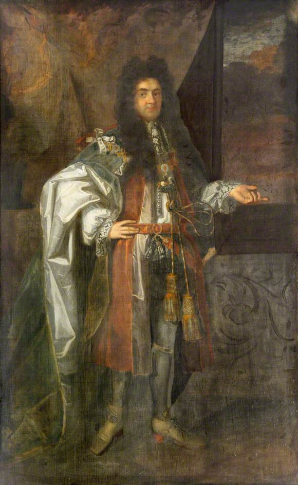 Christopher Monck, 2nd Duke of Albemarle, KG, PC (14 August 1653 – 6 October 1688), Chancellor of Cambridge University 1682–1688. Oil on canvas, 290 x 147 cm. Collection of Trinity College, Cambridge, purchased 1691